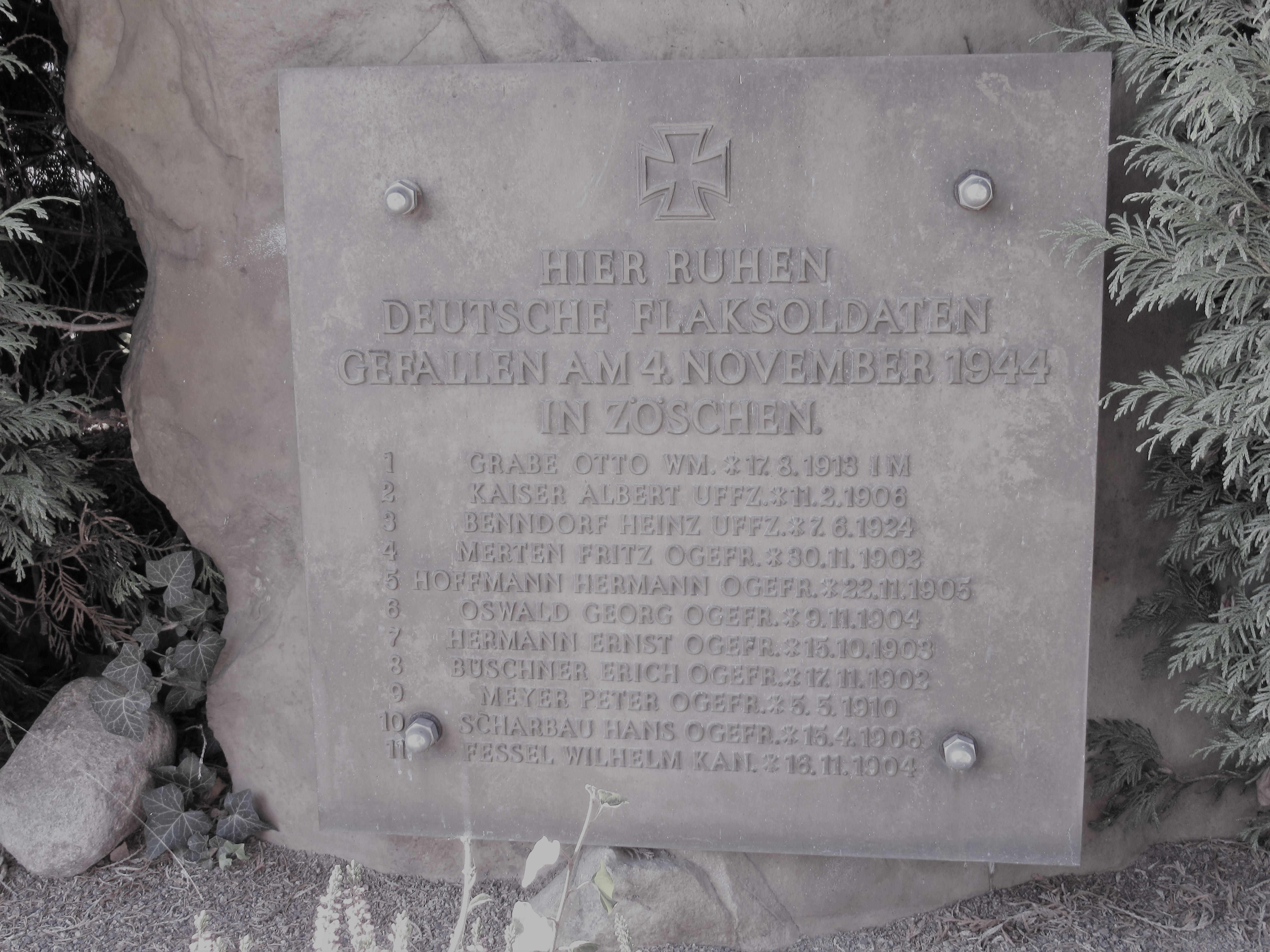 Soldiers fallen in Zöschen in 1944